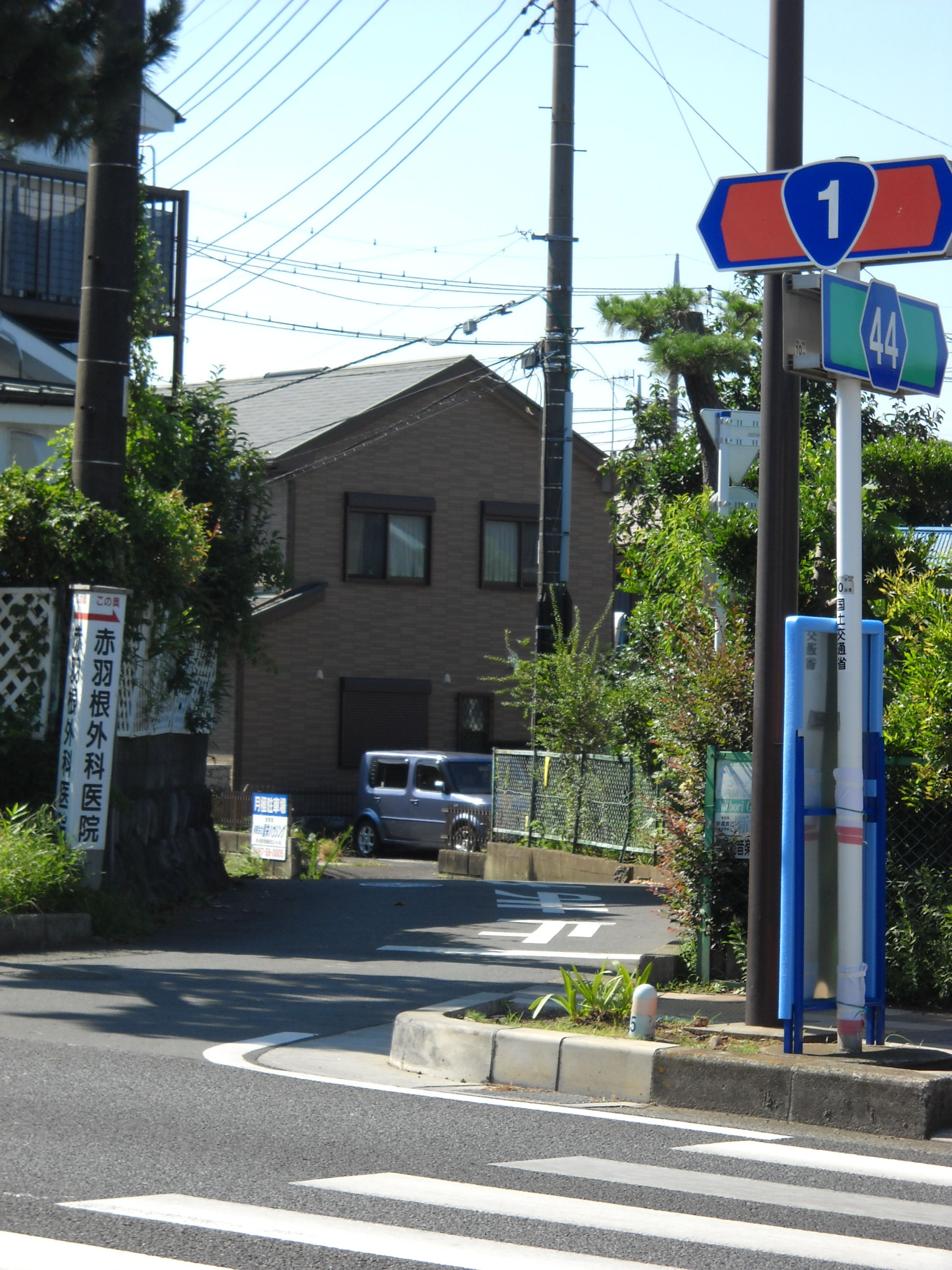 Ooyama kaido iriguchi crossing(Route 1 & Kanagawa prefectural road 44), Fujisawa city, Kanagawa pref, Japan